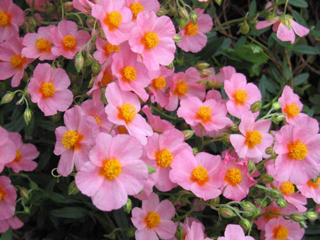 Description: Bastensko cvece - pink-flowered cultivar of Helianthemum nummularium Source: self-made